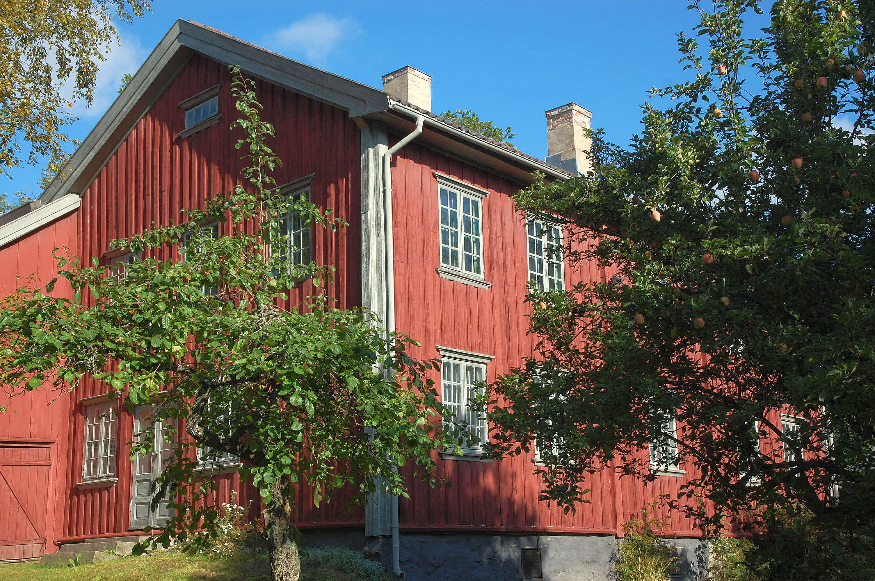 Gjetemyren gård, a protected farm building in Oslo